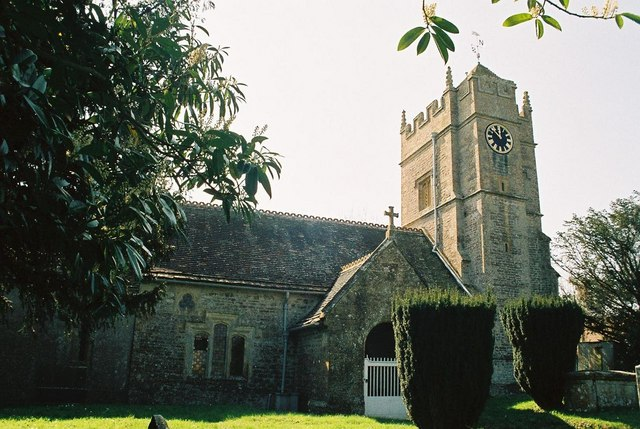 St Hippolyte's parish church, Ryme Intrinseca, Dorset, seen from the northeast